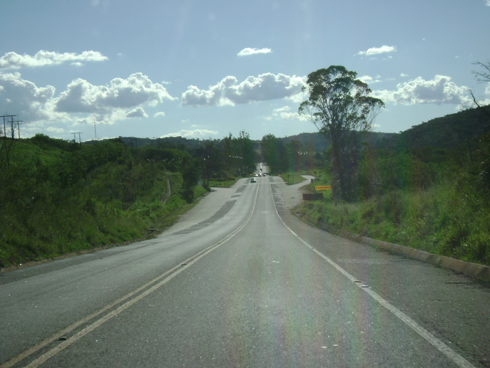 Trecho da rodovia dos Inconfidentes (BR-356), próximo à Cachoeira do Campo, distrito de Ouro Preto.